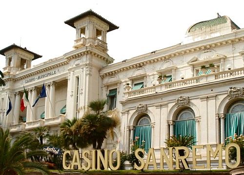 Casino of Sanremo (Italian Riviera)